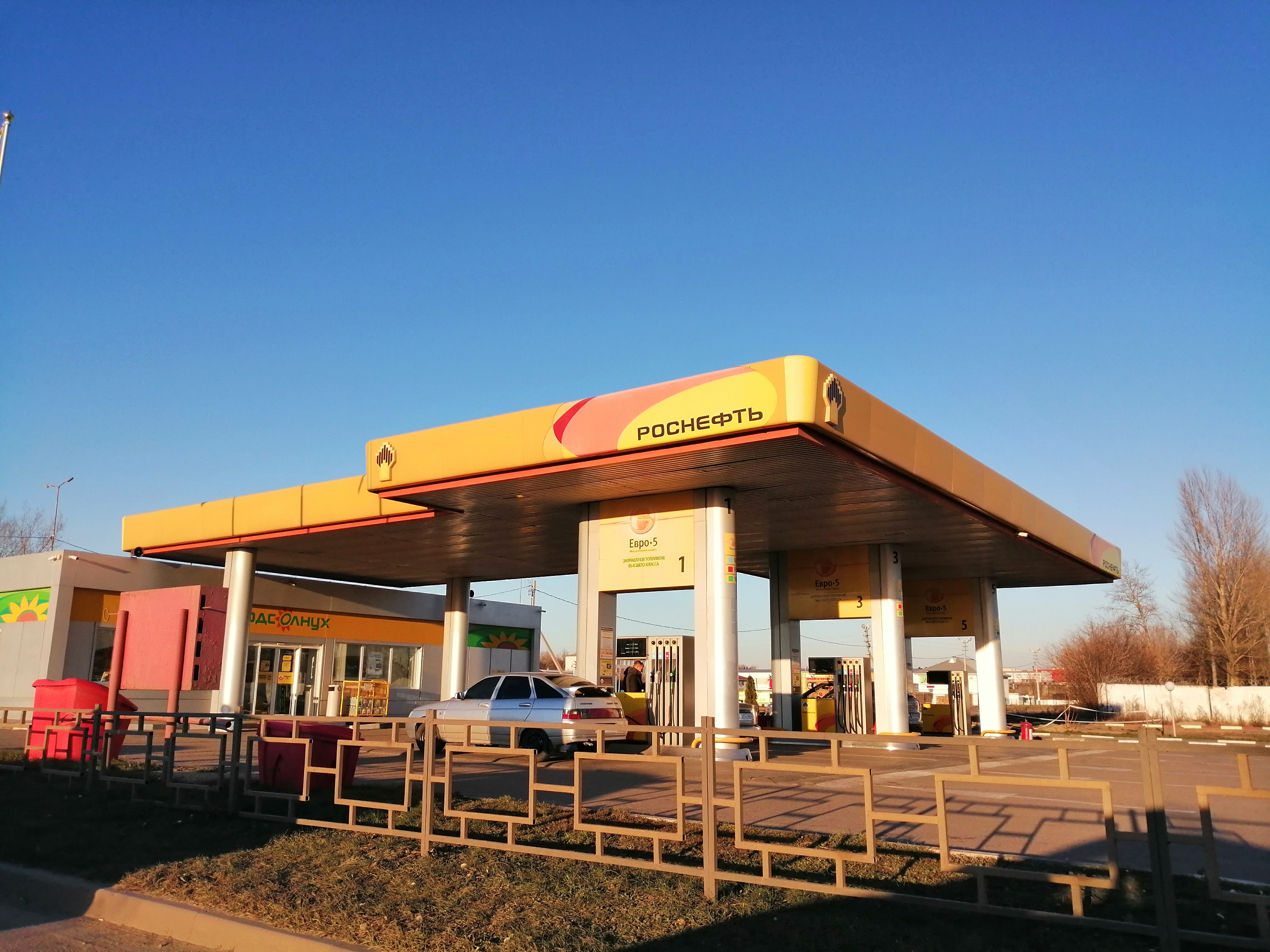 A Rosneft location in Staryy Oskol